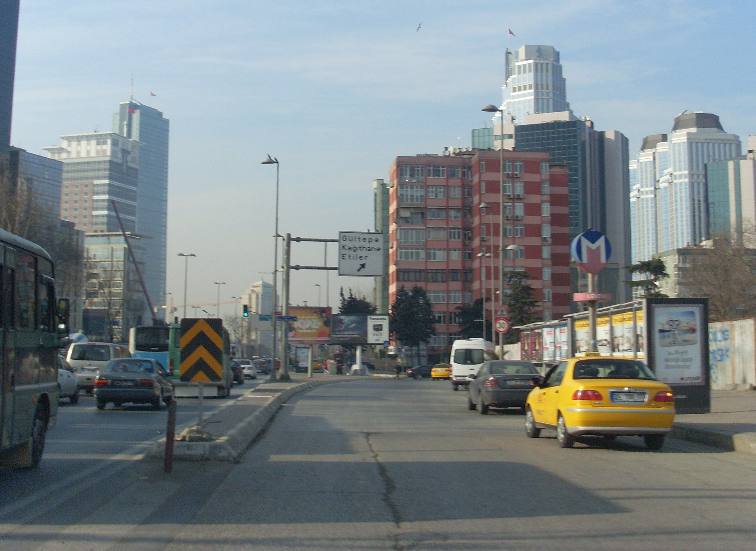 Büyükdere Cad Gültepe Kavşağı